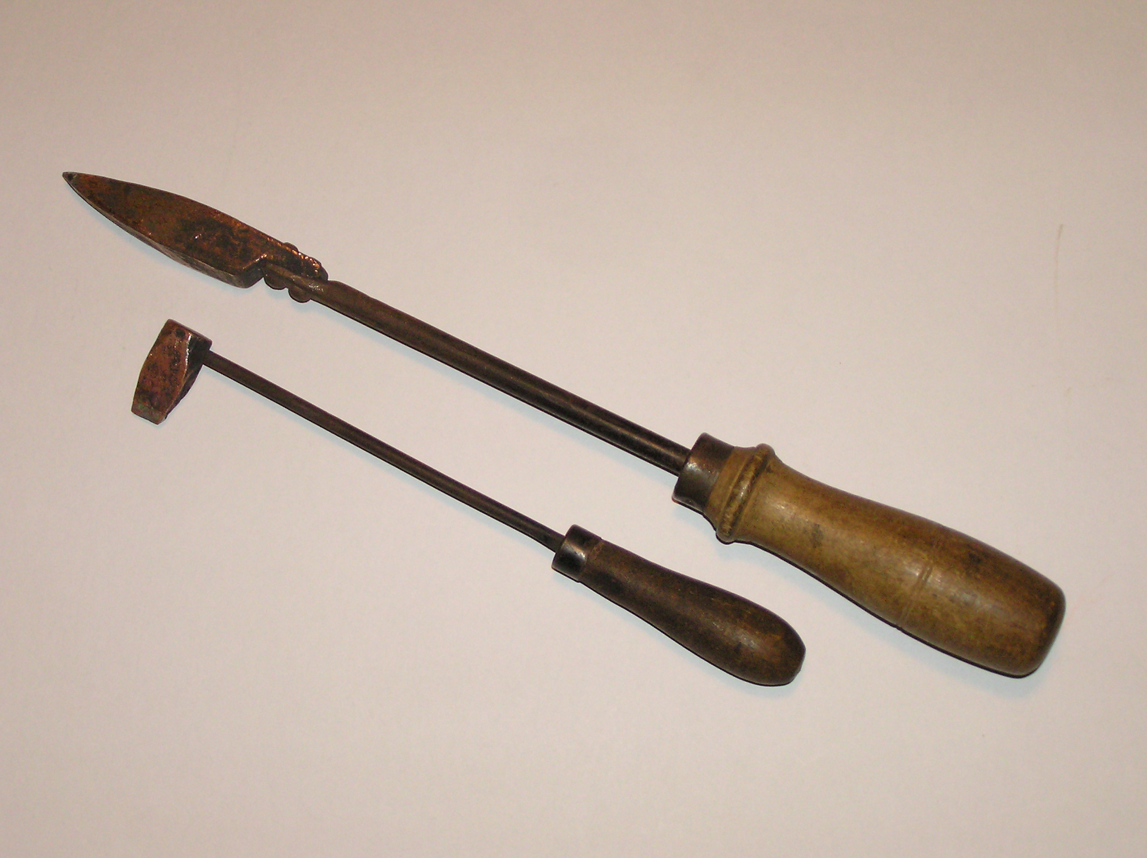 Old soldering irons with copper tips